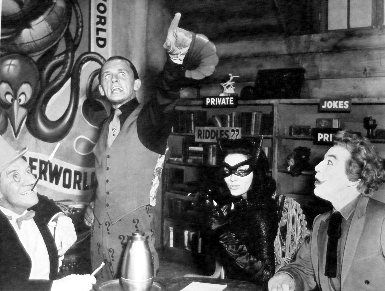 Photo of the "Batman" villains meeting. This is from the Batman 1966 film. From left to right: From left to right: Burgess Meredith as Penguin, Frank Gorshin as Riddler, Lee Meriwether as Catwoman, and Cesar Romero as Joker.